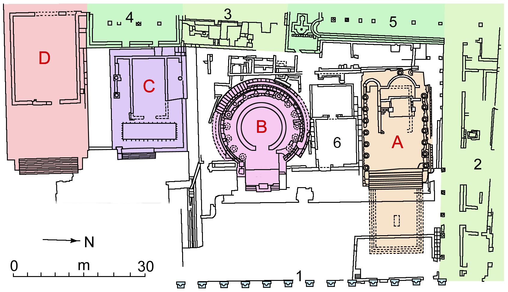 Map of the sacred area of Largo Argentina, in Rome. In red the four temples. 1) is the porticus minucia frumentaria, 2) is the hecatostylum, 3) is the Curia by Pompeo, 4) and 5) are toilets of imperial age, 6) is imperial age offices and deposits